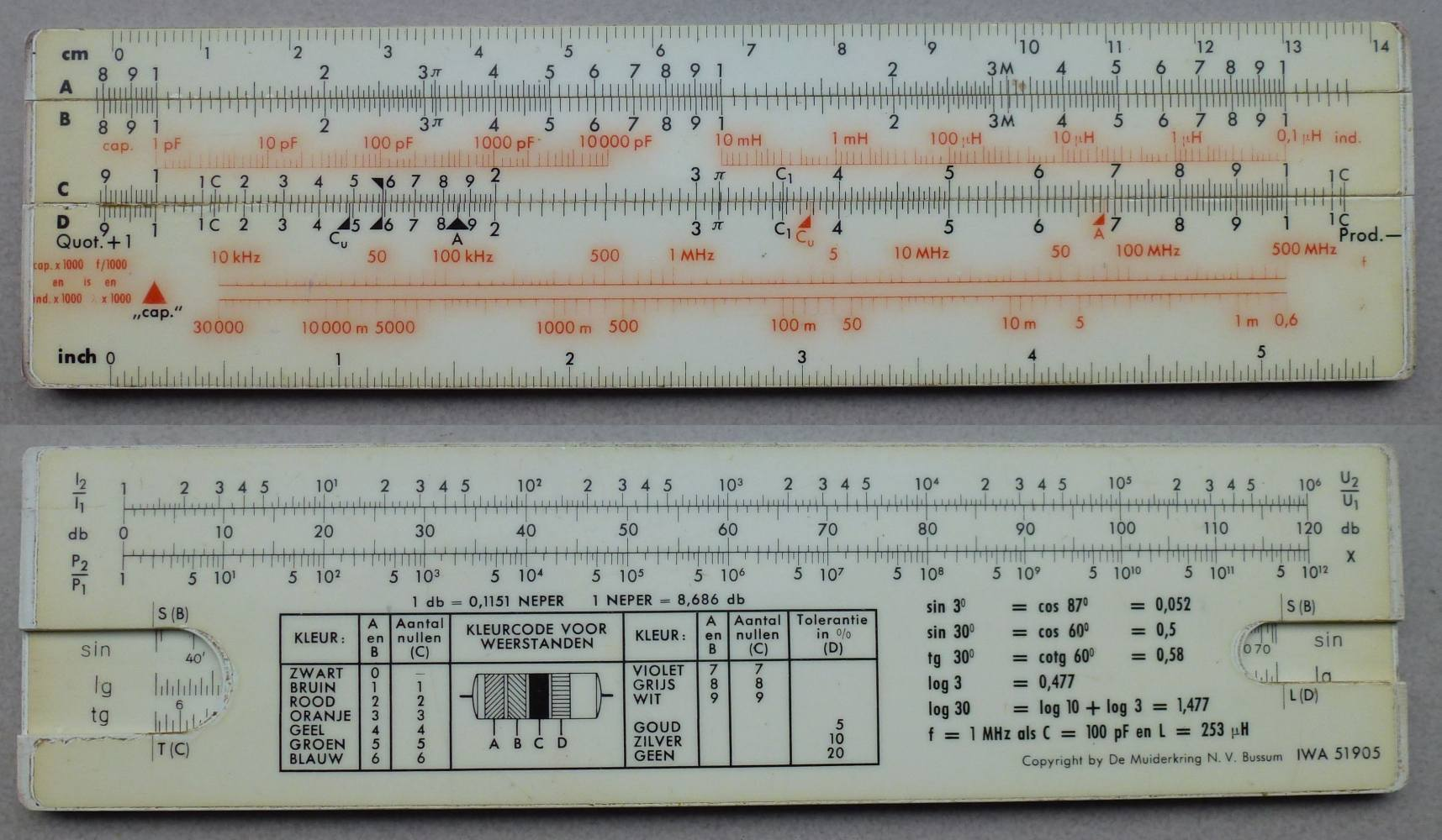 Slide rule (produced bij De Muiderkring, Netherlands) for calculating electronic properties